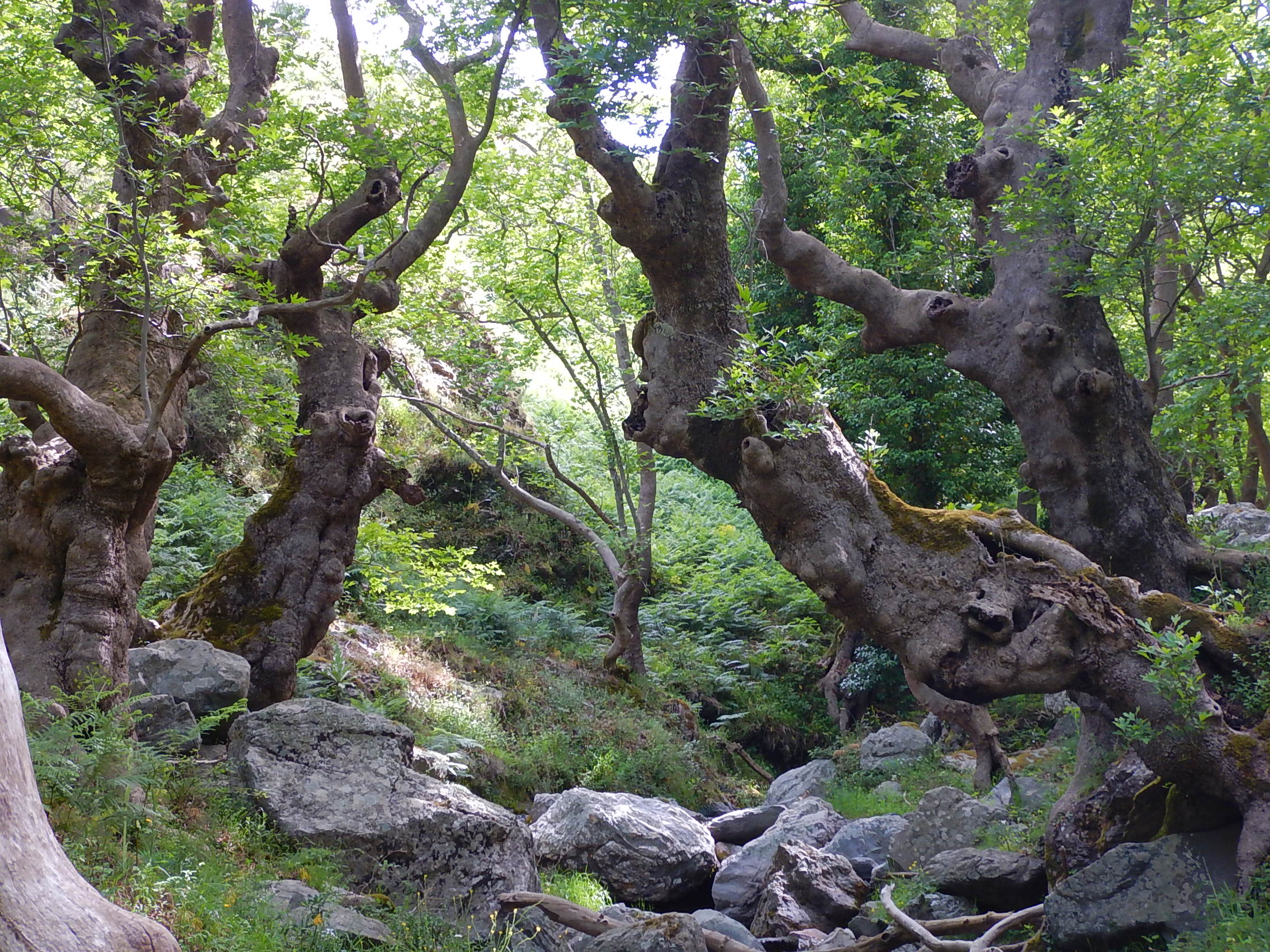 a gorge of Patrì creek at Fondachelli Fantina, Sicily